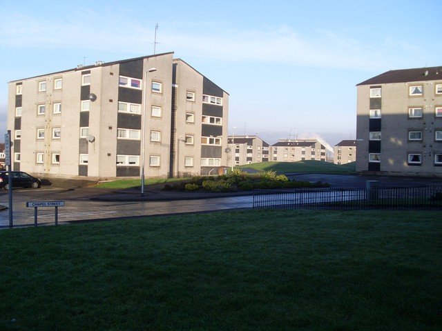 Chapel Street, Burnhill In Rutherglen, just off Burnhill Street.